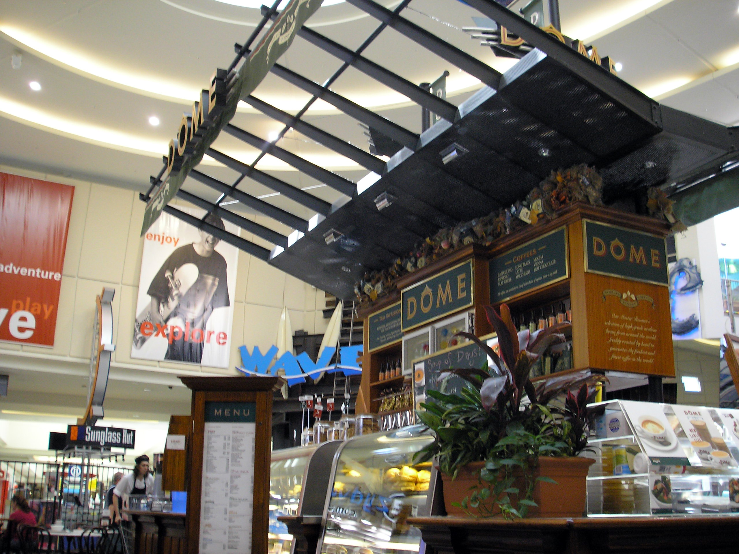 Dome coffee house at Westfield Carousel, Cannington, Western Australia. This store is now closed and has been replaced by a Coffee Club cafe.